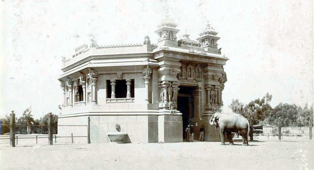 The Palace of the Elephants of Buenos Aires Zoo. This building was inspired on an Hindu Temple and built when Clemente Onelli was the director of the zoo.